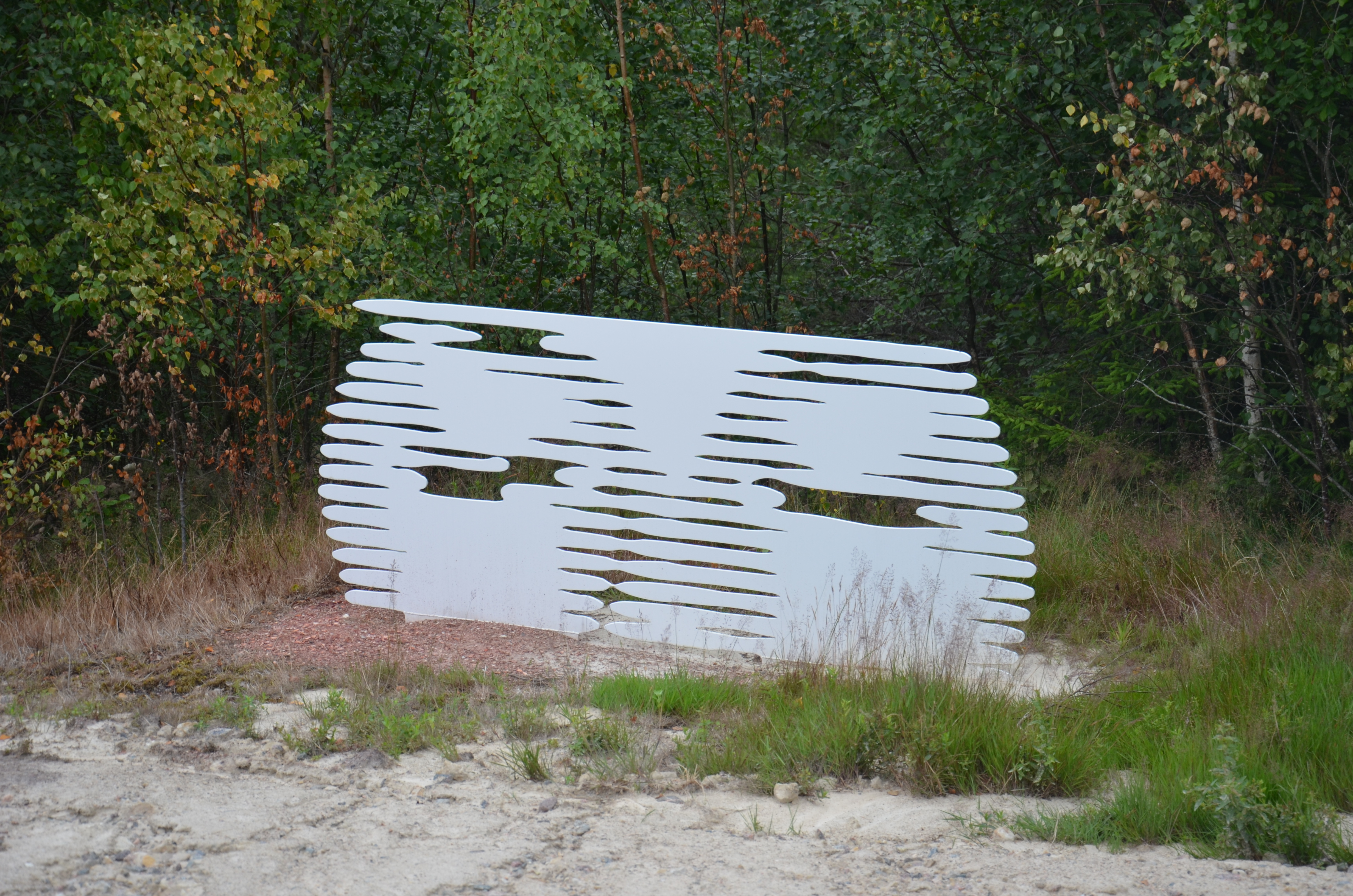 Synergi av Eva Marklund, 2008, Konst på Hög